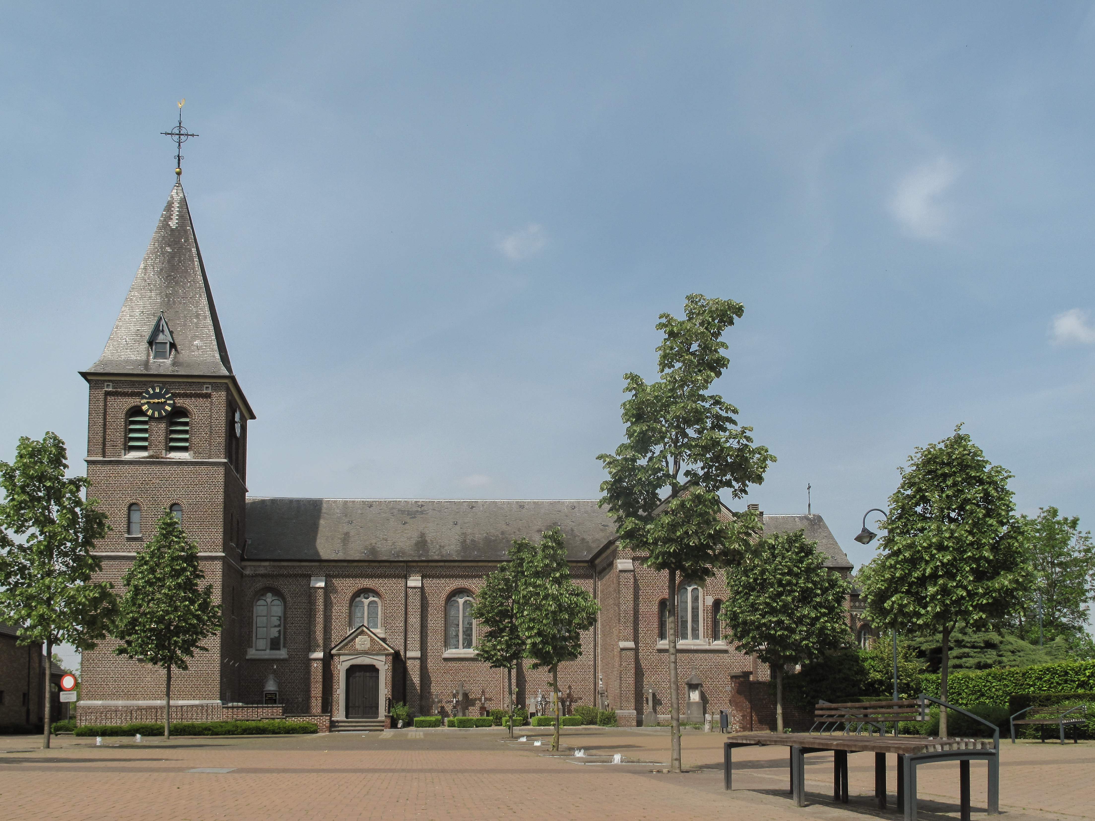 Wijchmaal, church (parochiekerk Sint-Trudo'